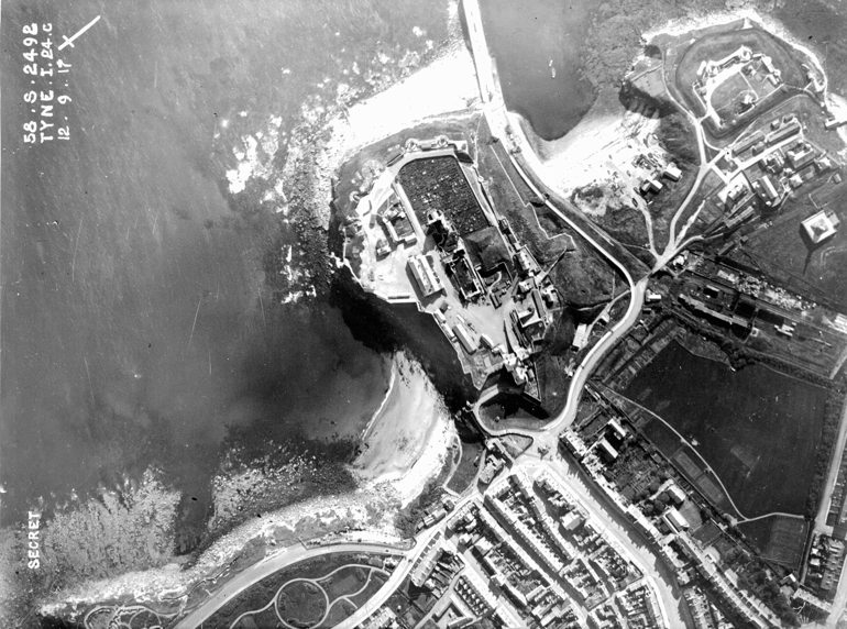 During the First World War Tynemouth Castle was a major coastal fortress and the control centre of the Tyne defences, which stretched from Sunderland to Blyth. It also served as the command base for coastal defences from Hartlepool to Berwick during World War II. Reference: TWAS: DT.GA.4.1-4 (Copyright) We're happy for you to share this digital image within the spirit of The Commons. Please cite 'Tyne & Wear Archives & Museums' when reusing. Certain restrictions on high quality reproductions and commercial use of the original physical version apply though; if you're unsure please . To purchase a hi-res copy please quoting the title and reference number.